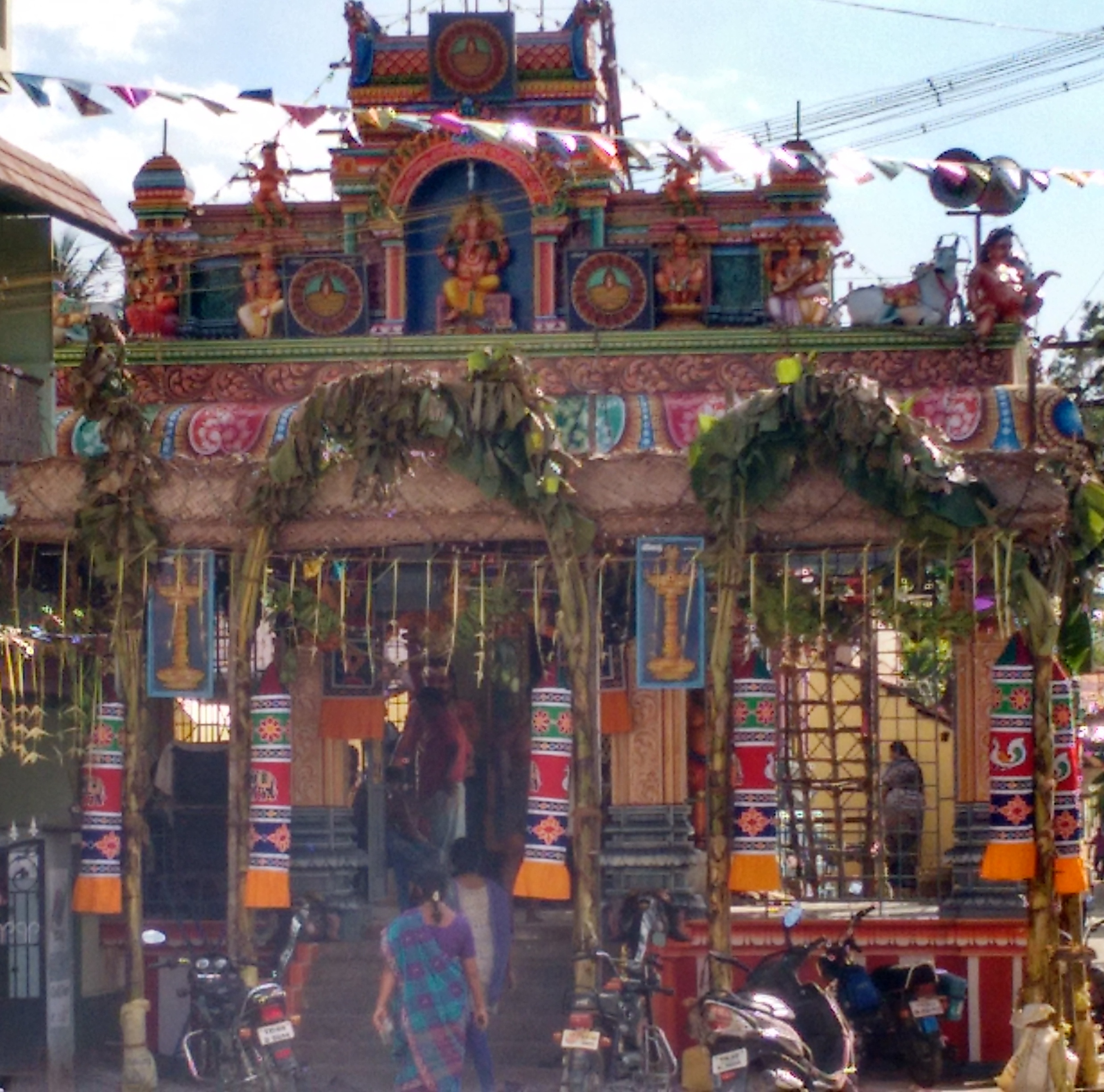 nanayakkara street ninaittha kariyam mudittha vinayaka நாணயக்காரத்தெரு நினைத்தகாரியம்முடித்த விநாயகர்